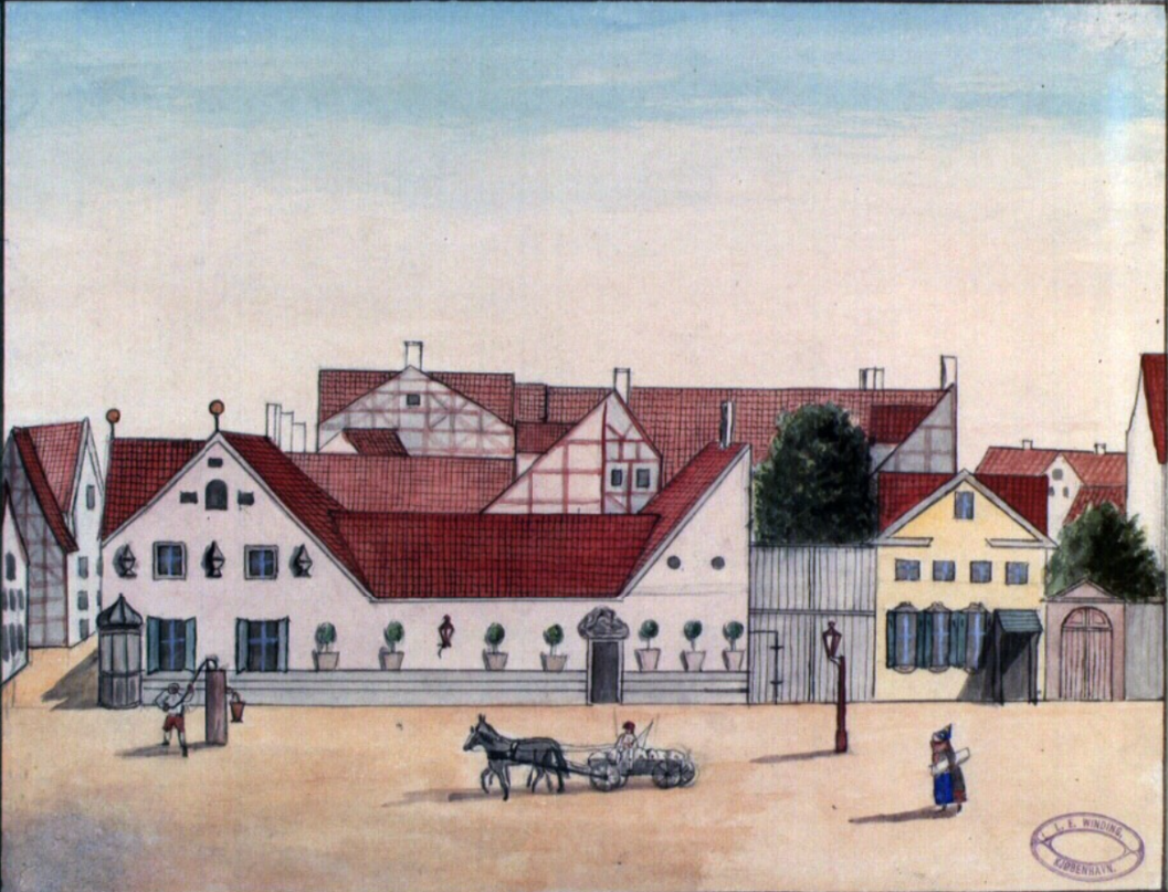 Wolffang Ruhmann Weibels Gård på Christianshavns Torv, 1749